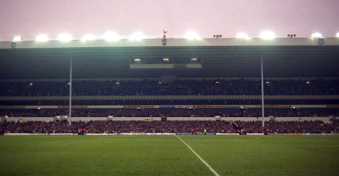 The main stand at Tottenham Hotspur in 1991, near to Tottenham, Haringey, Great Britain.